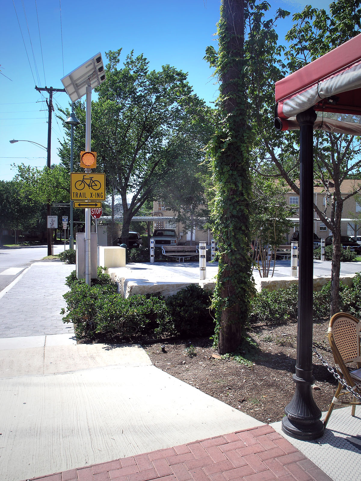 14 June